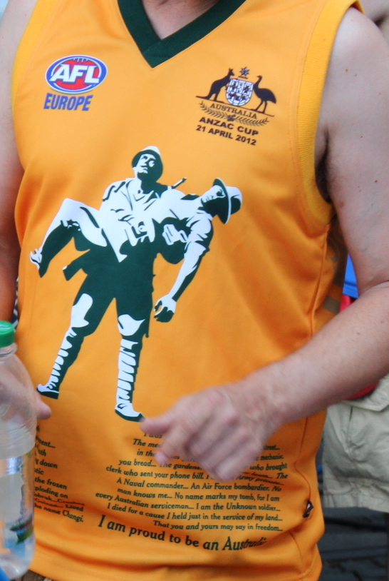 AFL Europe – "ANZAZ Cup" 21 Arpil 2012 shirt